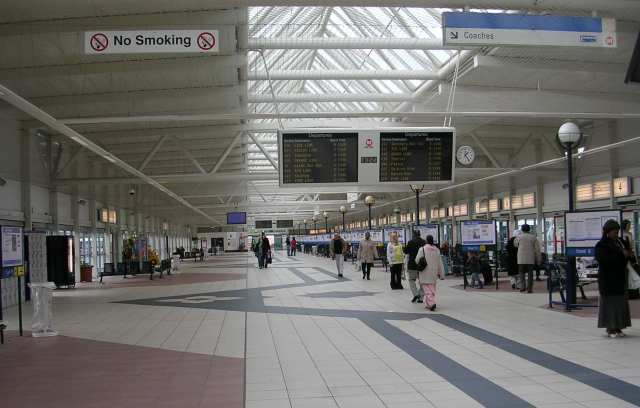 Bradford Interchange - Upper Concourse